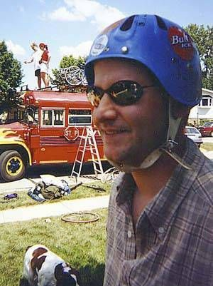 It is so licensed because I took it myself.